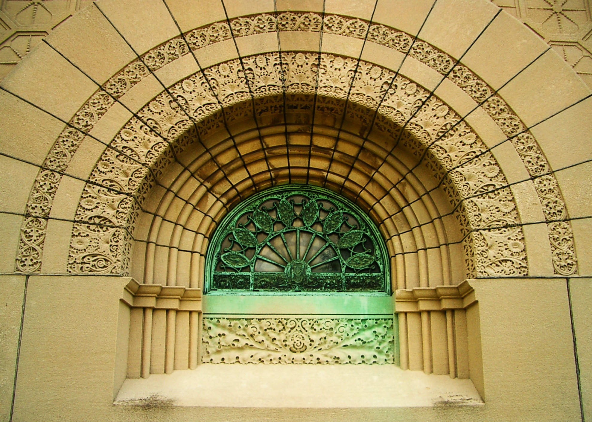 This is a photo of a side window of the Getty Tomb, designed by Louis Sullivan, in Graceland Cemetery, Chicago, Illinois.